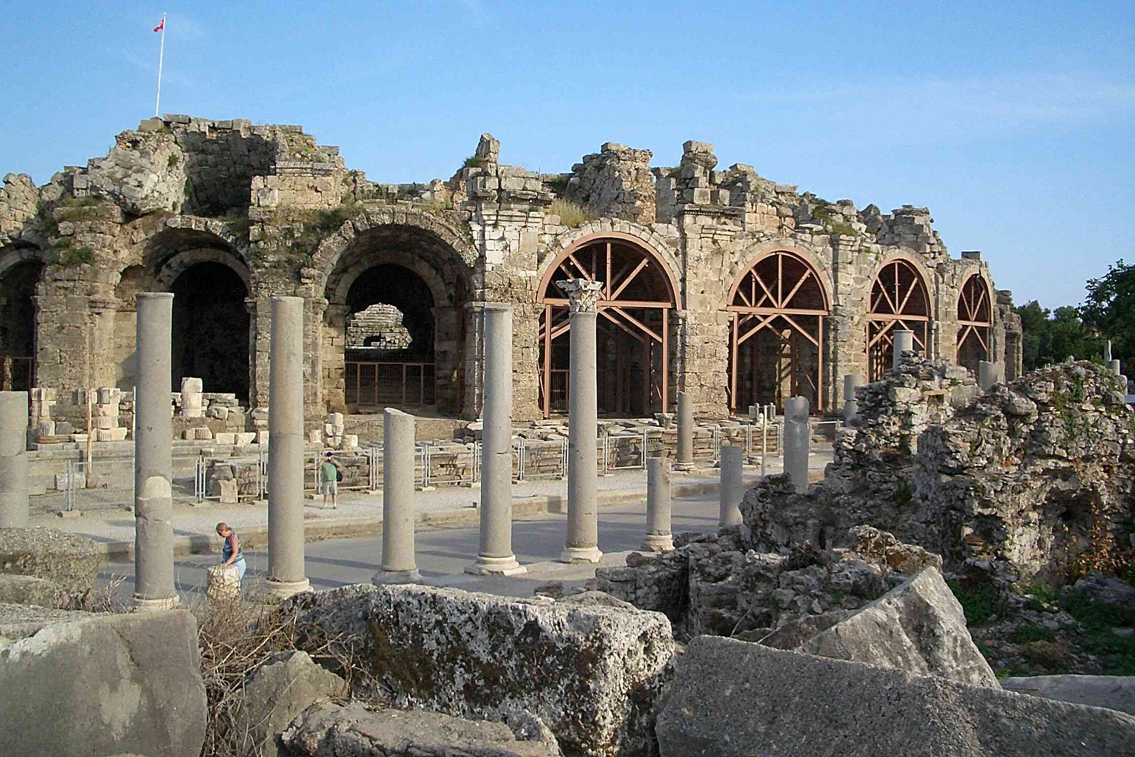 Ancient theatre in Side (Turkey) exterior view